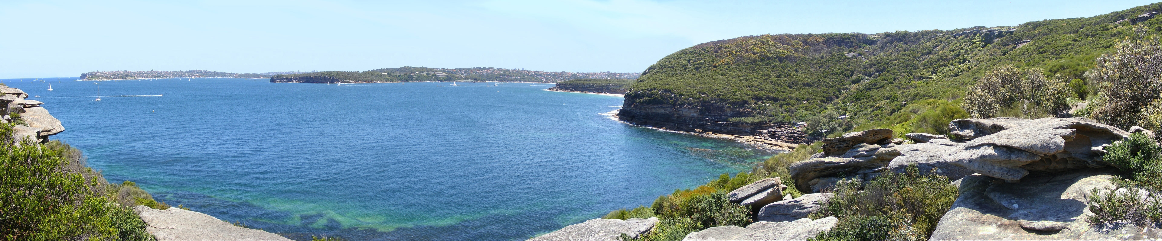 The view from Grotto Point Reserve Sydney Harour. This picture comprises of four pictures that have been stitched together. This is a link to the panaramio article for this picture with the map location of where it was taken, it also has one of the separate photos that was used